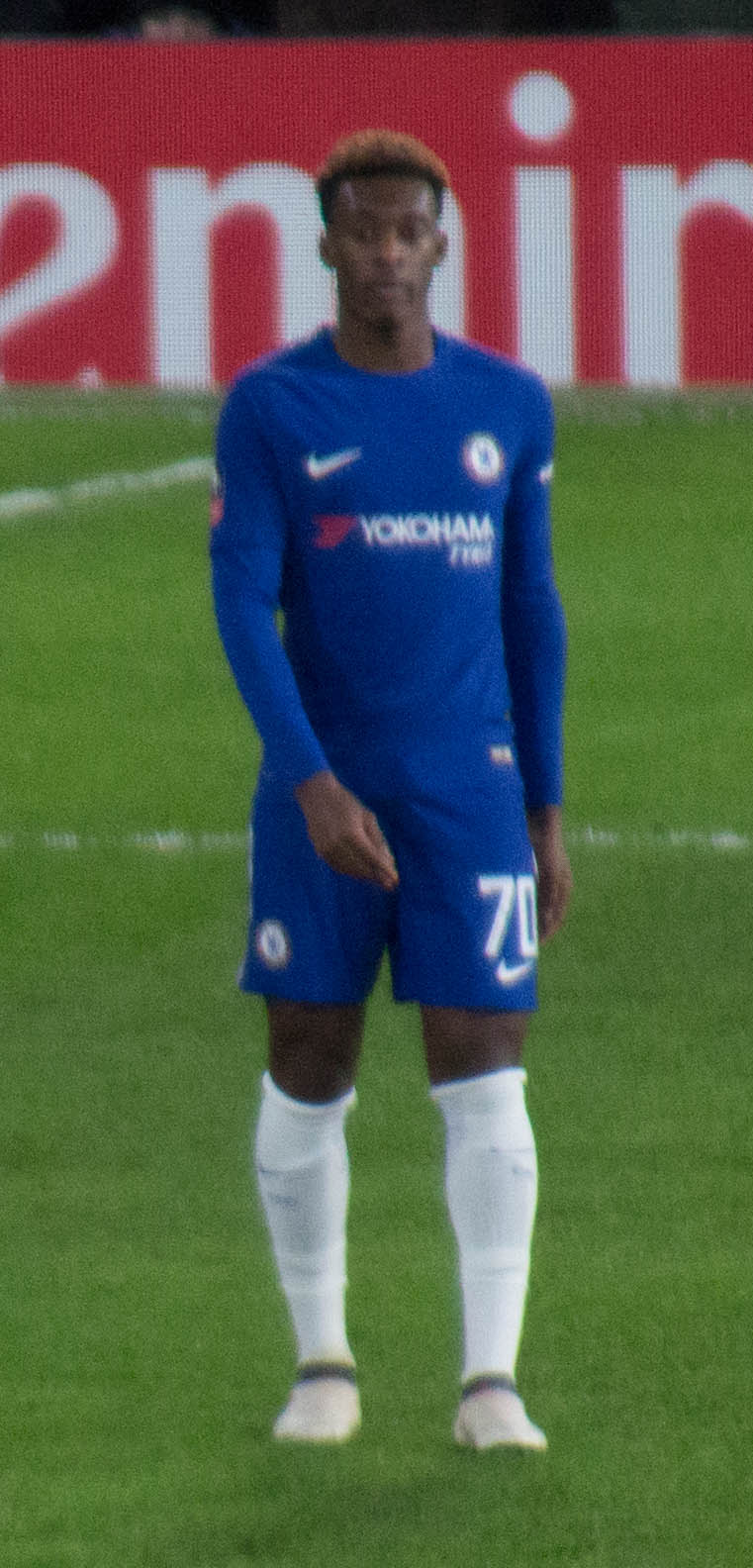 FA Cup 5th round 16.2.18